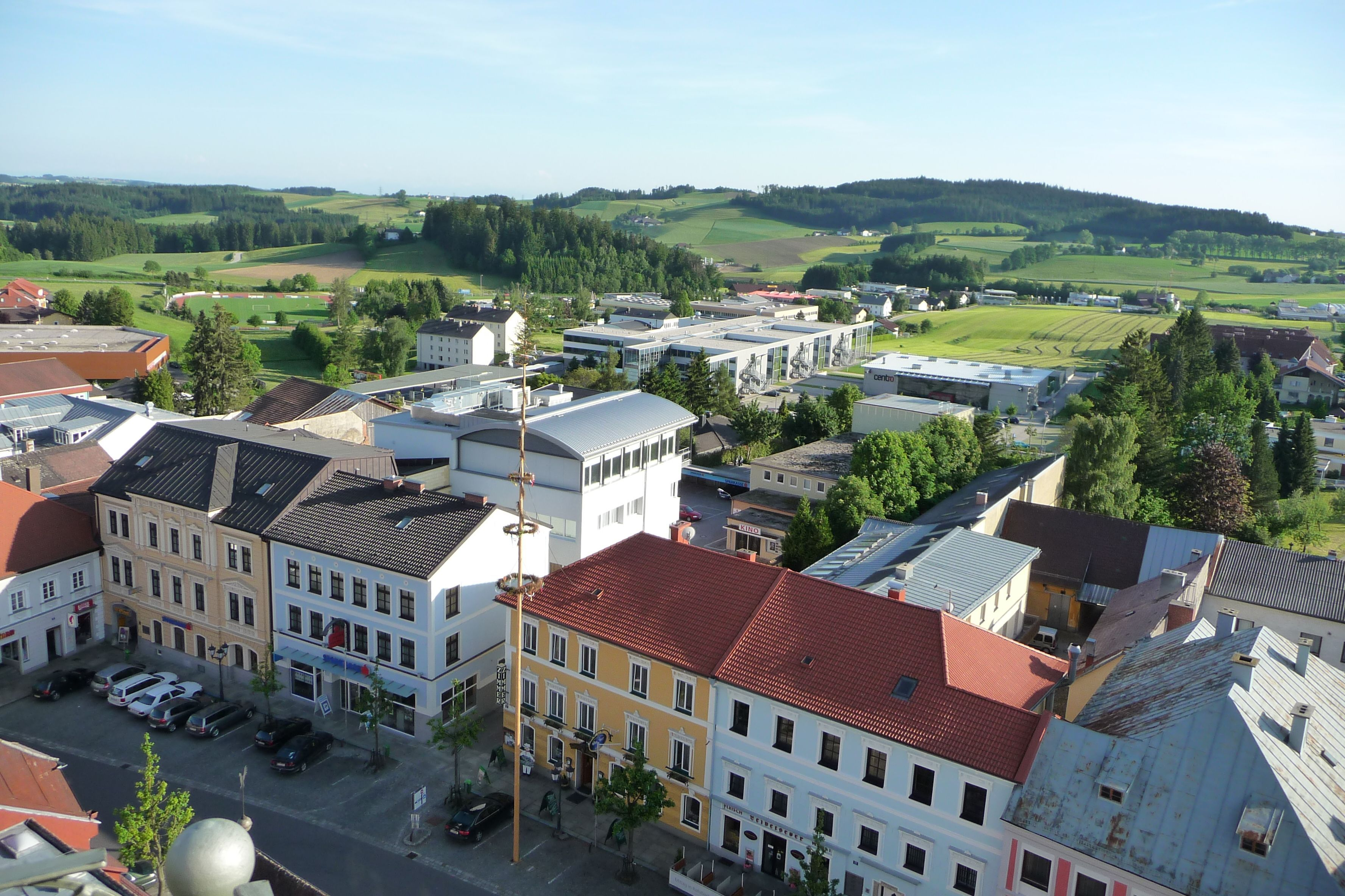 View vom Church Tower to south-east - Rohrbach Upper Austria